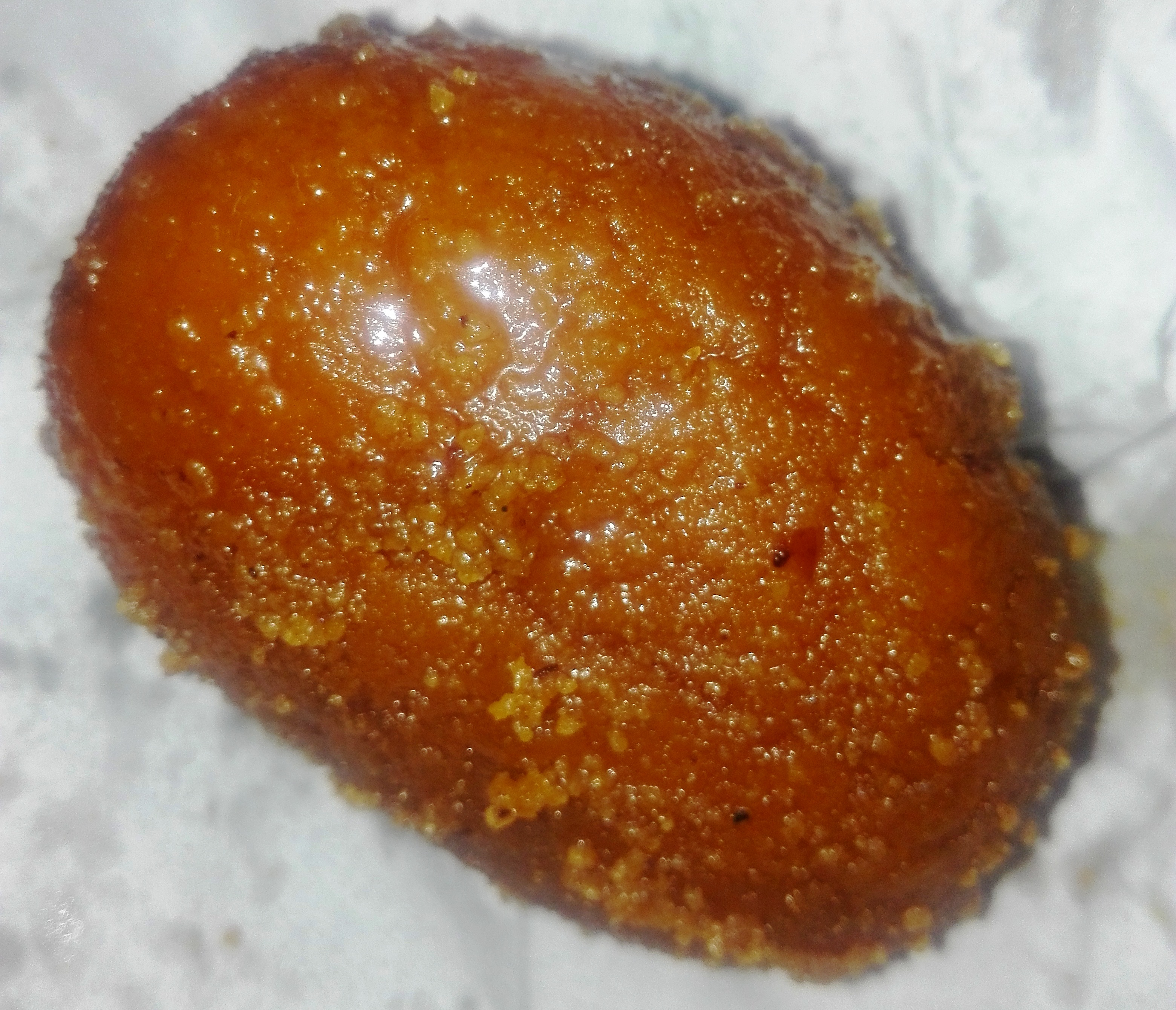 Tangailer chomchom